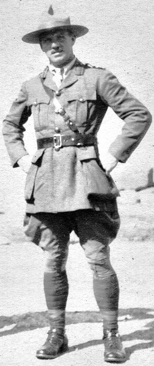 Extracted from a group photograph of Irish Constabularies in Palestine